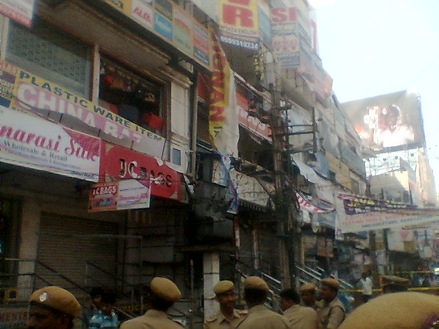 Blast site 1